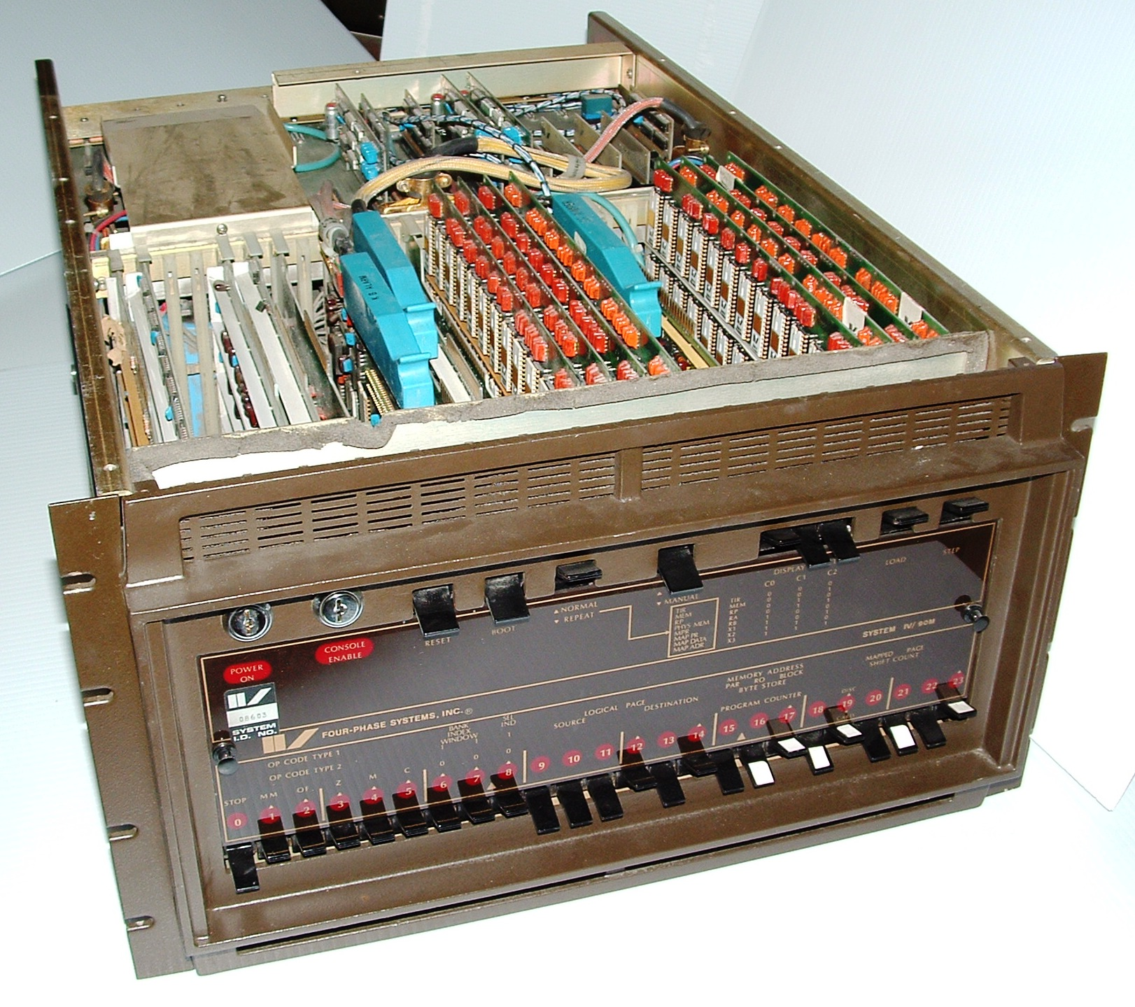 Softlab Maestro 1978-79 credit: Museum of Information Technology at Arlington